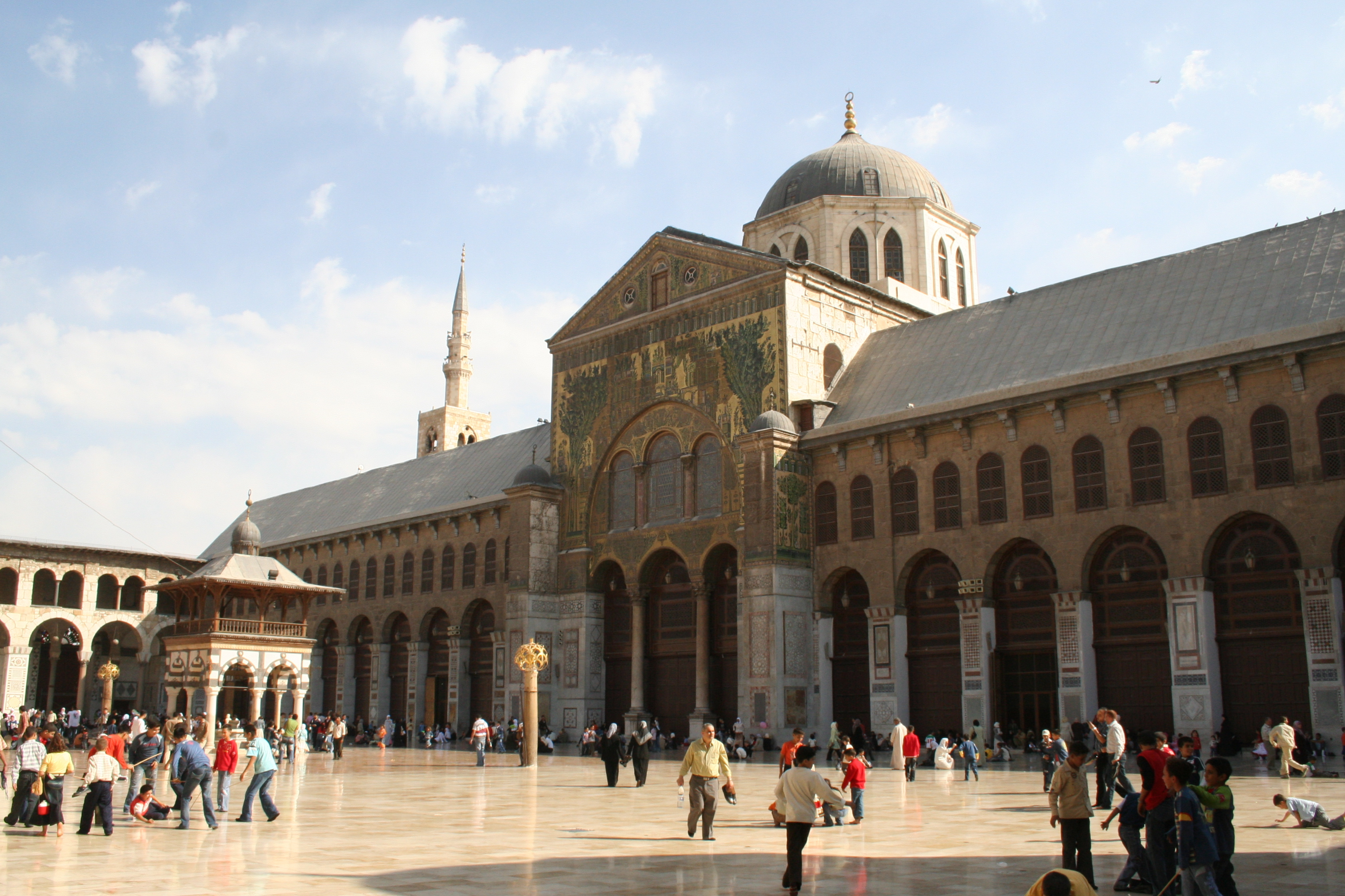 Yard of the Umayyad Mosque in Damascus